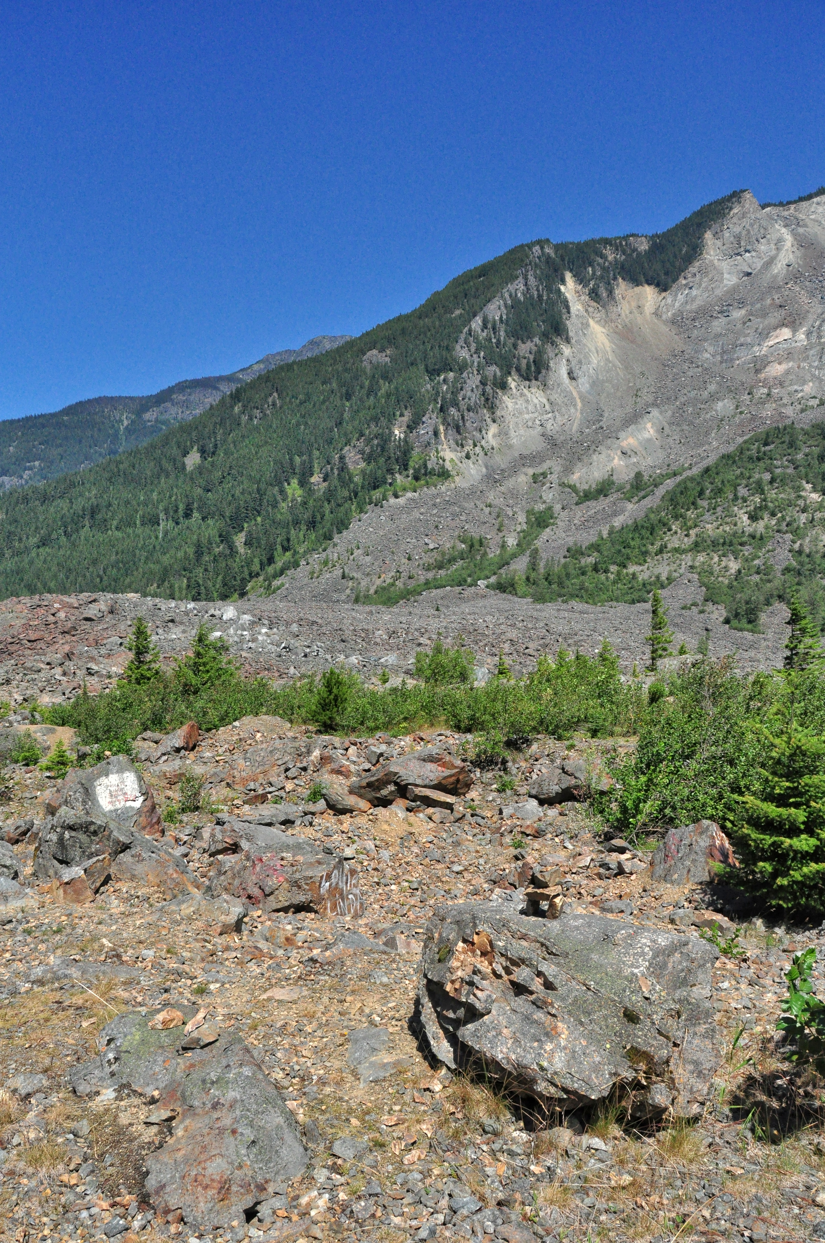 Landslide near the Hope, BC, Canada, which occurred on Jan 10, 1965